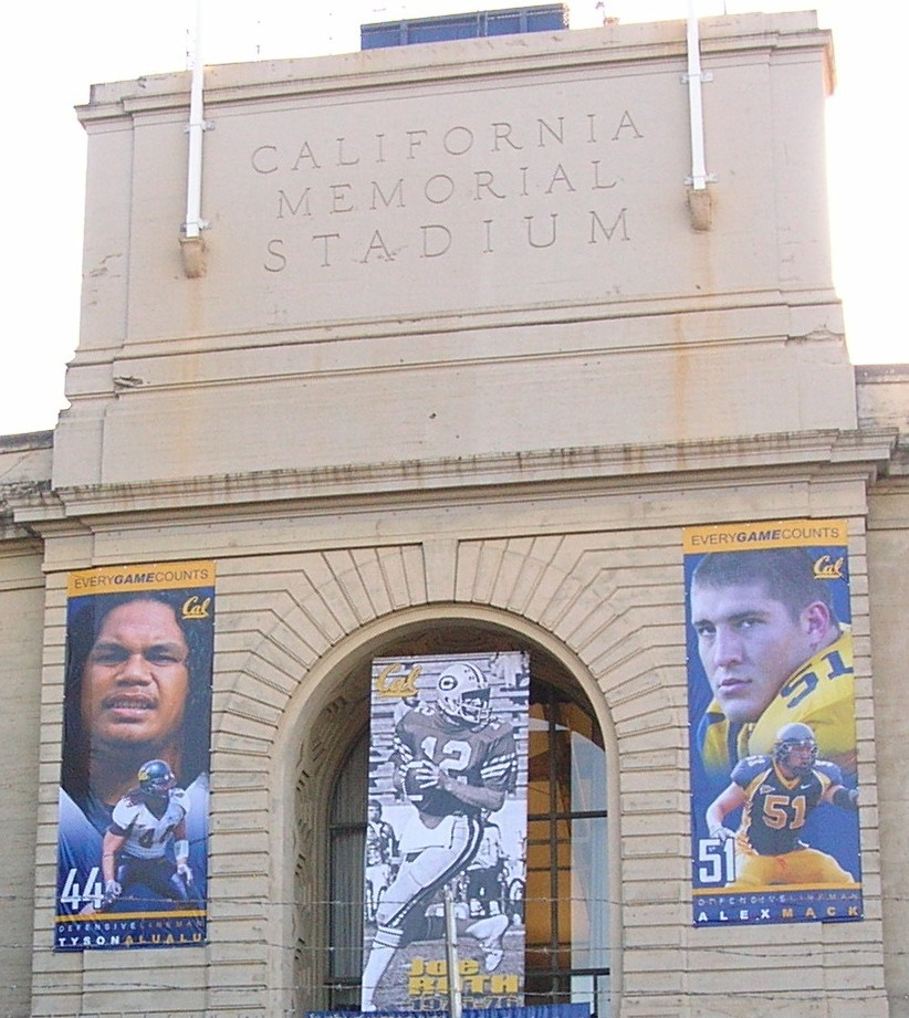 The north end of Memorial Stadium set up for a Cal home game against the UCLA Bruins, the 2008 Joe Roth Memorial Game. The Golden Bears won 41-20.